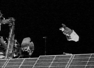 Spacewalkers release the SuitSat (right center), an old Russian spacesuit with an amateur radio transmitter.